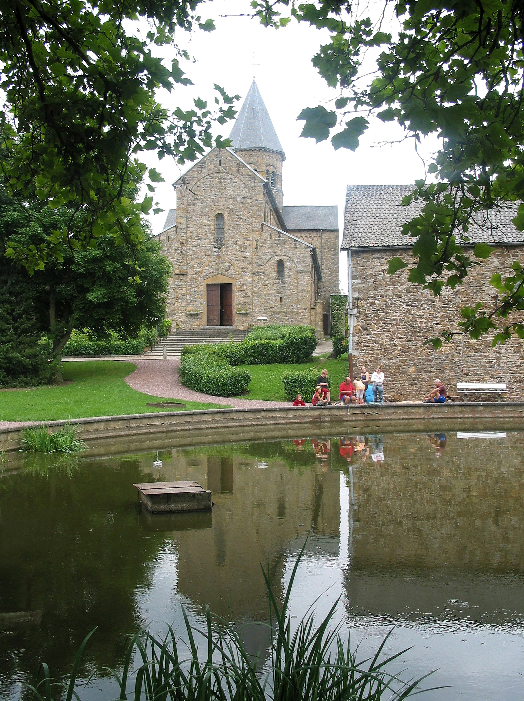 Saint-Séverin (Belgium), the church of Saints Peter and Paul (First half part of the XIIth century).